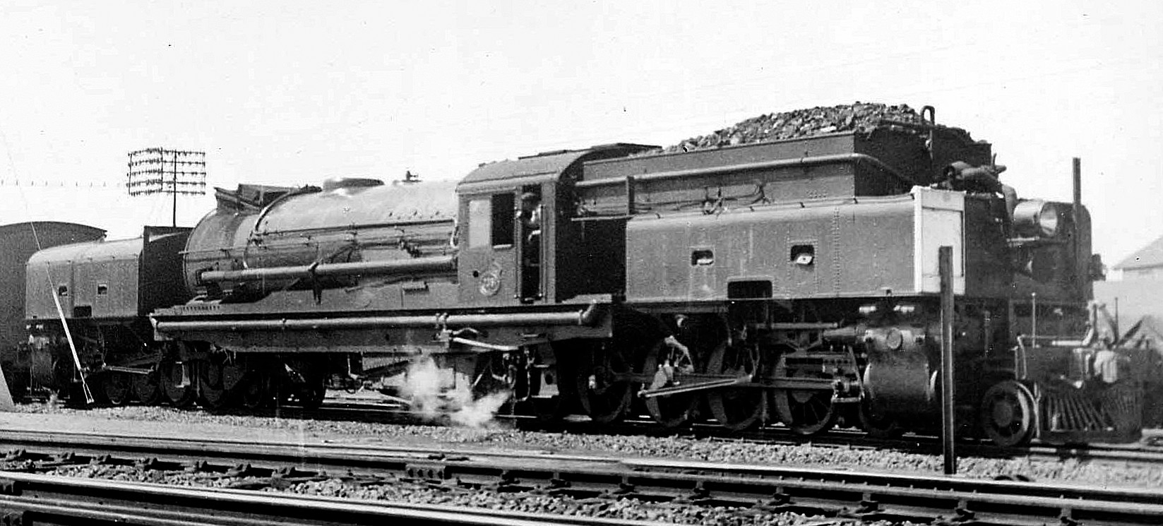 Class GL 2351 (4-8-2+2-8-4) Princess Alice Builder's works number: BP 6531/1929